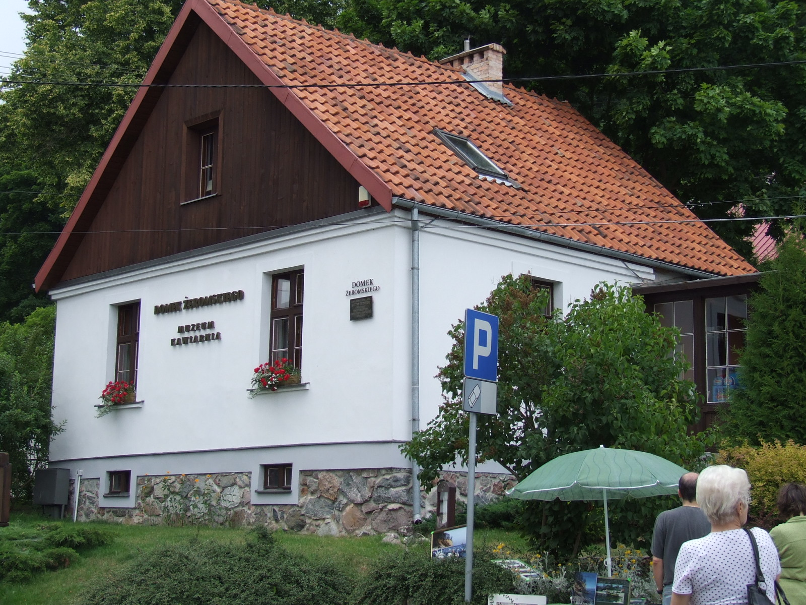 Stefan Żeromski house in Gdynia (Poland)